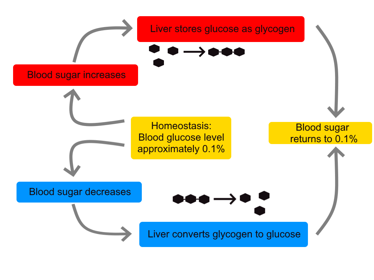 This diagram illustrates the way in which glucose can be converted into, and then back out of, the glycogen molecule in order to keep blood sugar levels constant despite fluctuations due to eating or fasting.